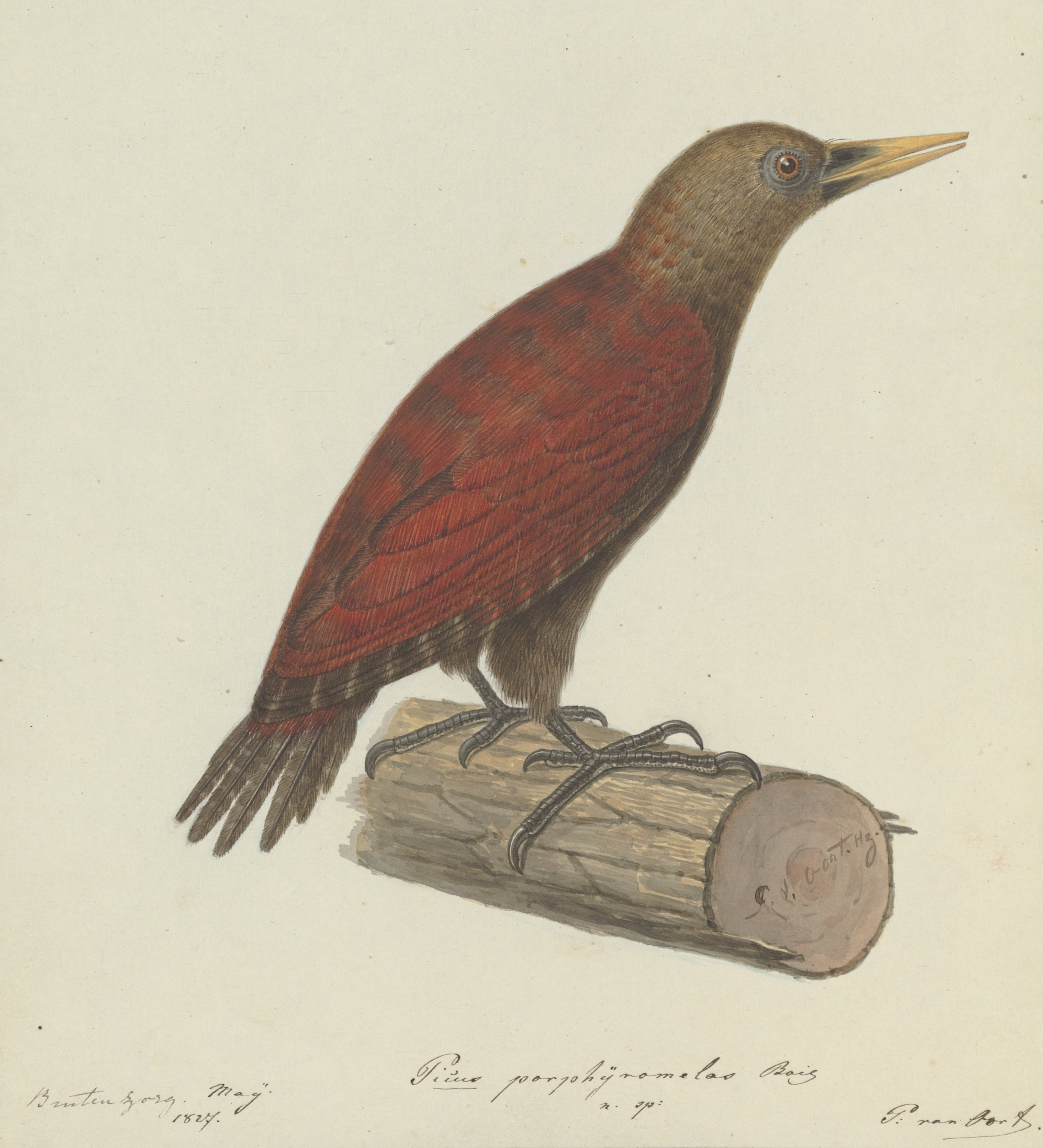 2 pages: 1) drawing of bird. Chrijsococoijx. B. / Cuculus xanthorhijnchos. Horsf. Female, Java (GvRaalten), 2) drawing bird. Picus porphijnomelas Boie n.sp. Buitenzorg Maij 1827 (P. van Oort)